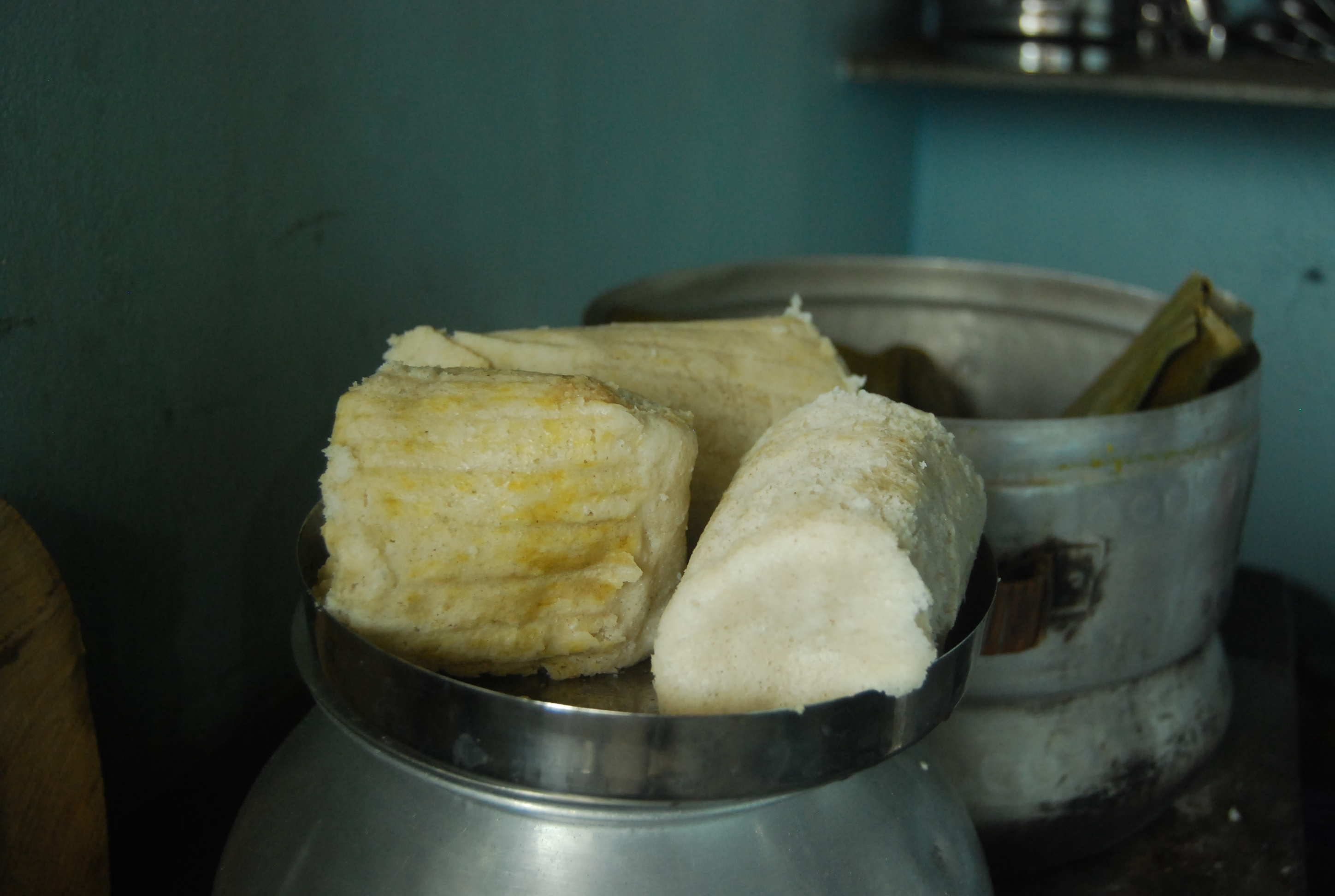 Dishes of Tuluva(Mangaluru) origin, this is preparing on occasion of Krishna Jnamastami, moode used banana leaves. ಕನ್ನಡ: ತುಳುವರ ತಿಂಡಿ, ಕೃಷ್ಣ ಜನ್ಮಾಷ್ಟಮಿಯಂದು ವಿಶೇಷವಾಗಿ ಮಾಡುತ್ತಾರೆ. ಇದನ್ನು ಮೂಡೆ ಕೊಟ್ಟಿಗೆ ಎಂದು ಕರೆಯುತ್ತಾರೆ. ಇದು ಬಾಳೆ ಎಲೆಯಲ್ಲಿ ತಯಾರಿಸಿದ್ದು.